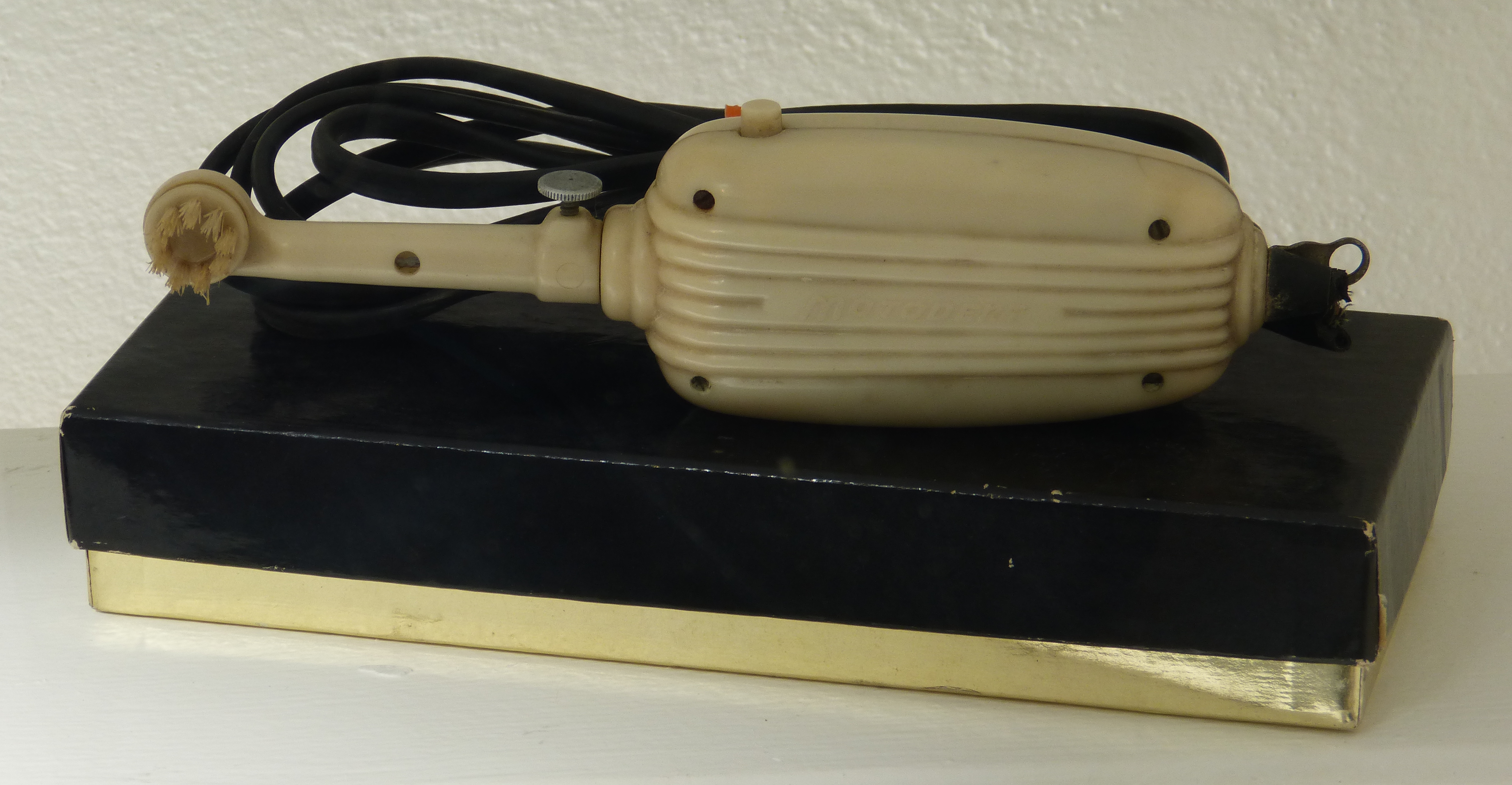 Description: A photo of a Motodent electric toothbrush. The toothbrush was on display at the the Museum of American Heritage and the photo was taken during a visit to the museum. The museum display mentioned an inventor, Tomlinson Moseley. There is a US patent that appears to cover the depicted electric toothbrush. The patent was filed for in 1937 and it indicates that the patent rights were assigned from Moseley to Motodent, Inc., of Los Angeles, California, USA.